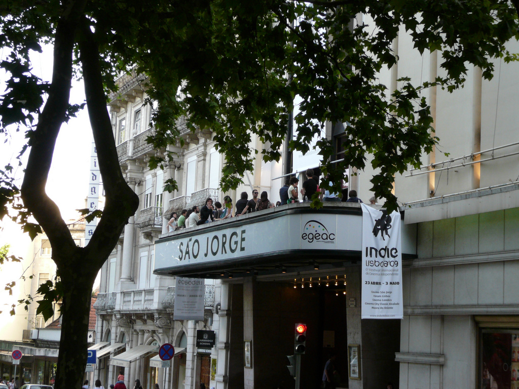 São Jorge cinema in Lisbon, Portugal